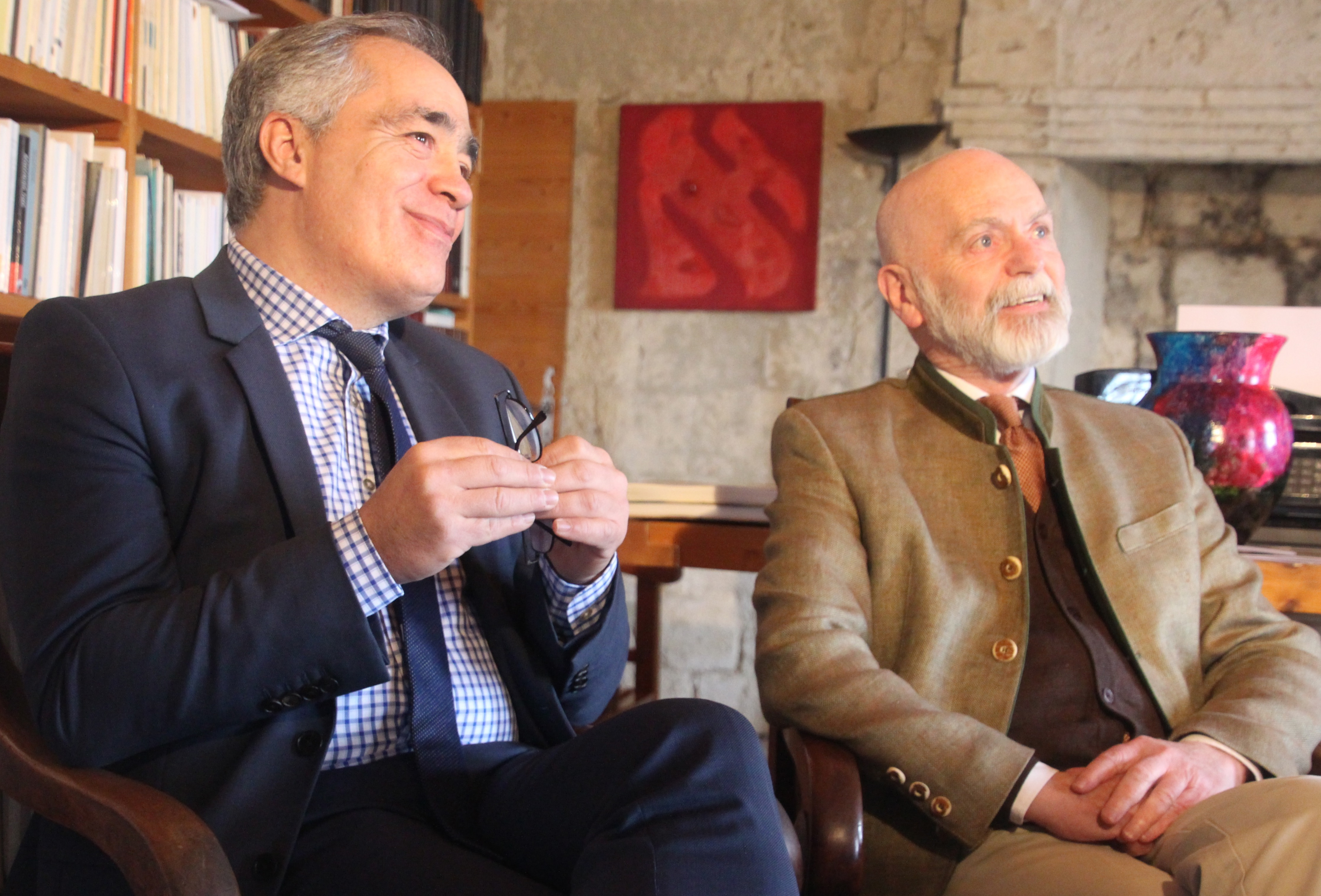 Renaud Camus et Karim Ouchick au château de Plieux, en mars 2019.